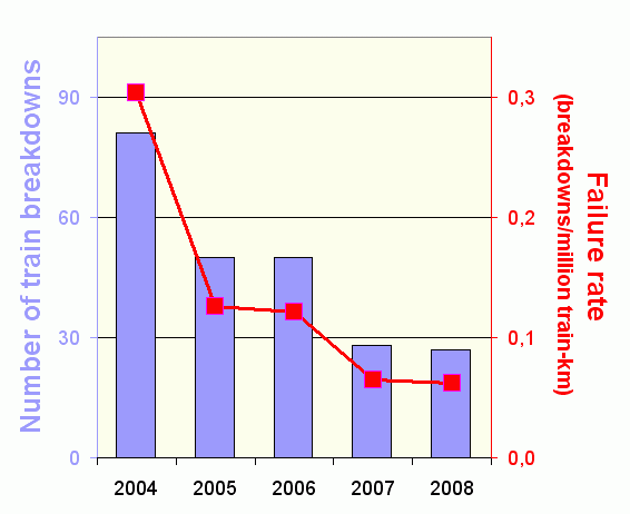 Number and rate of train breakdowns in the first five years of South Korea's KTX high-speed rail service